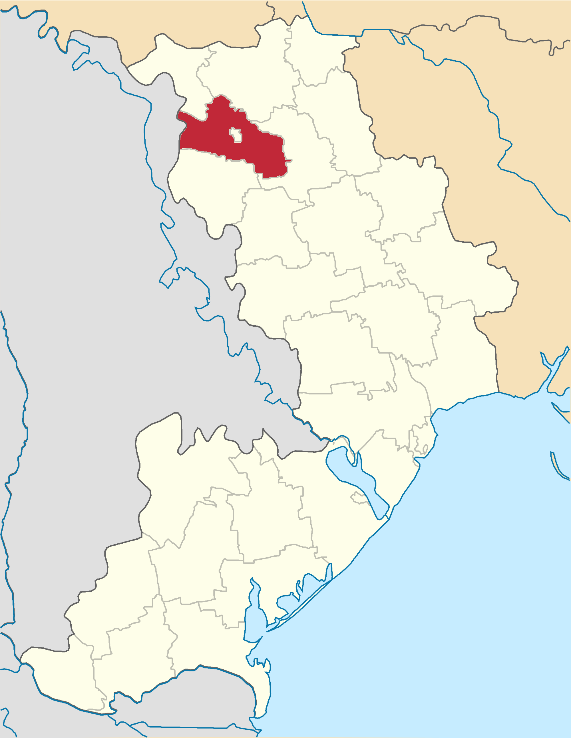 The map of Podilsk Raion, Odessa Oblast, Ukraine